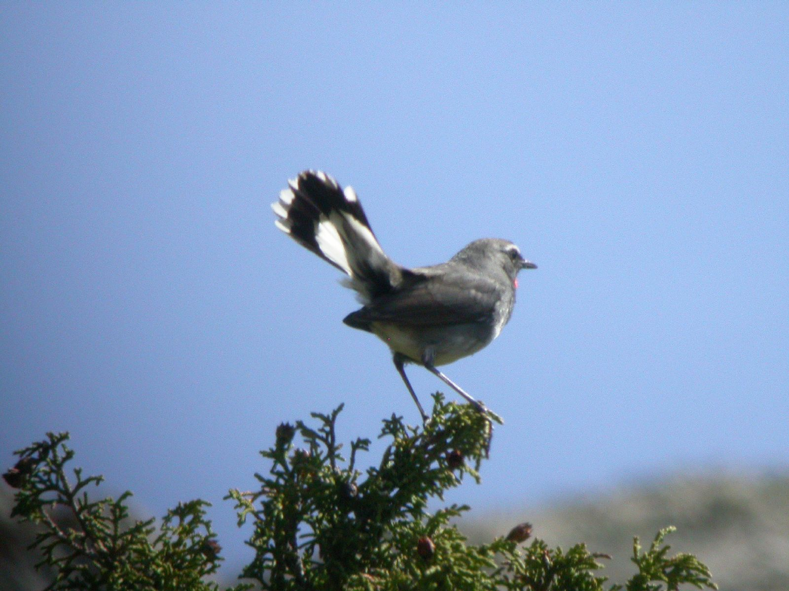 White-tailed Rubythroat (Luscinia pectoralis ssp. ballioni ) from above Bolshoi Almaty Lake in the Kazakhstan side of the Tian Shan mountains